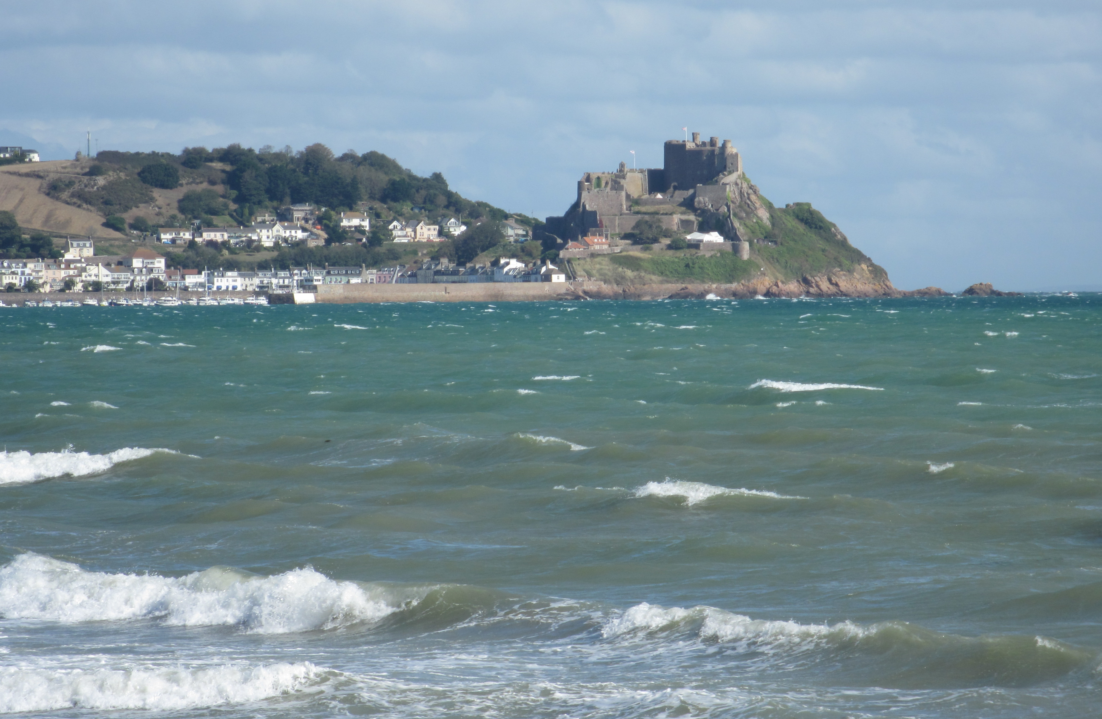 12 September 2009: Saint Clement, Grouville, Saint Martin, Jersey